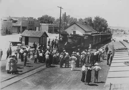 A view of Downtown Espanola, New Mexico, 1920. A group of towns people gather near the depot.